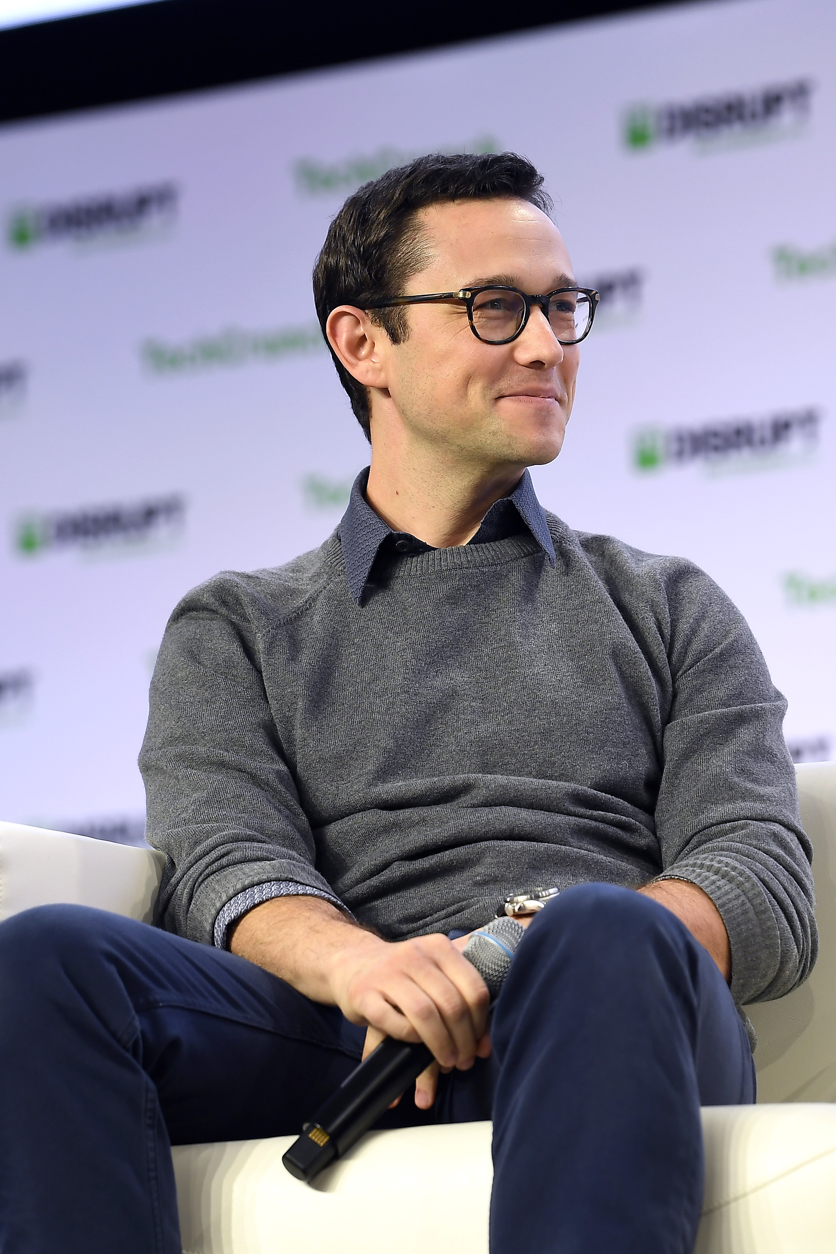 SAN FRANCISCO, CALIFORNIA - OCTOBER 02: HitRecord Co-founder & CEO Joseph Gordon-Levitt speaks onstage during TechCrunch Disrupt San Francisco 2019 at Moscone Convention Center on October 02, 2019 in San Francisco, California. (Photo by Steve Jennings/Getty Images for TechCrunch)